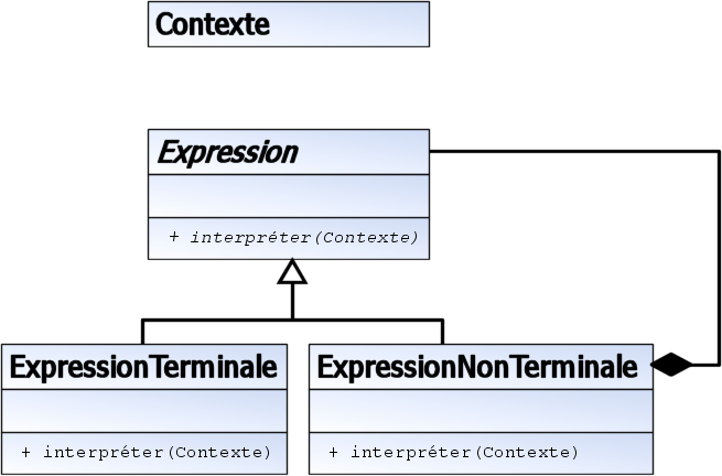 UML Class Diagram of the Interpreter Design Pattern